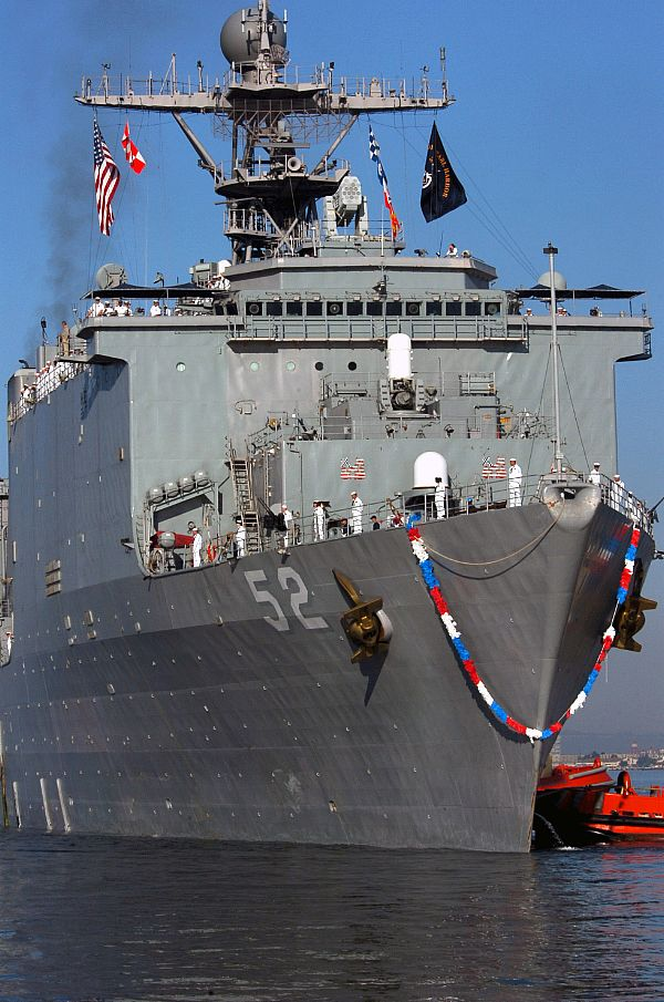 Close up look of USS Pearl Harbor (LSD 52) as it pulls into San Diego naval base